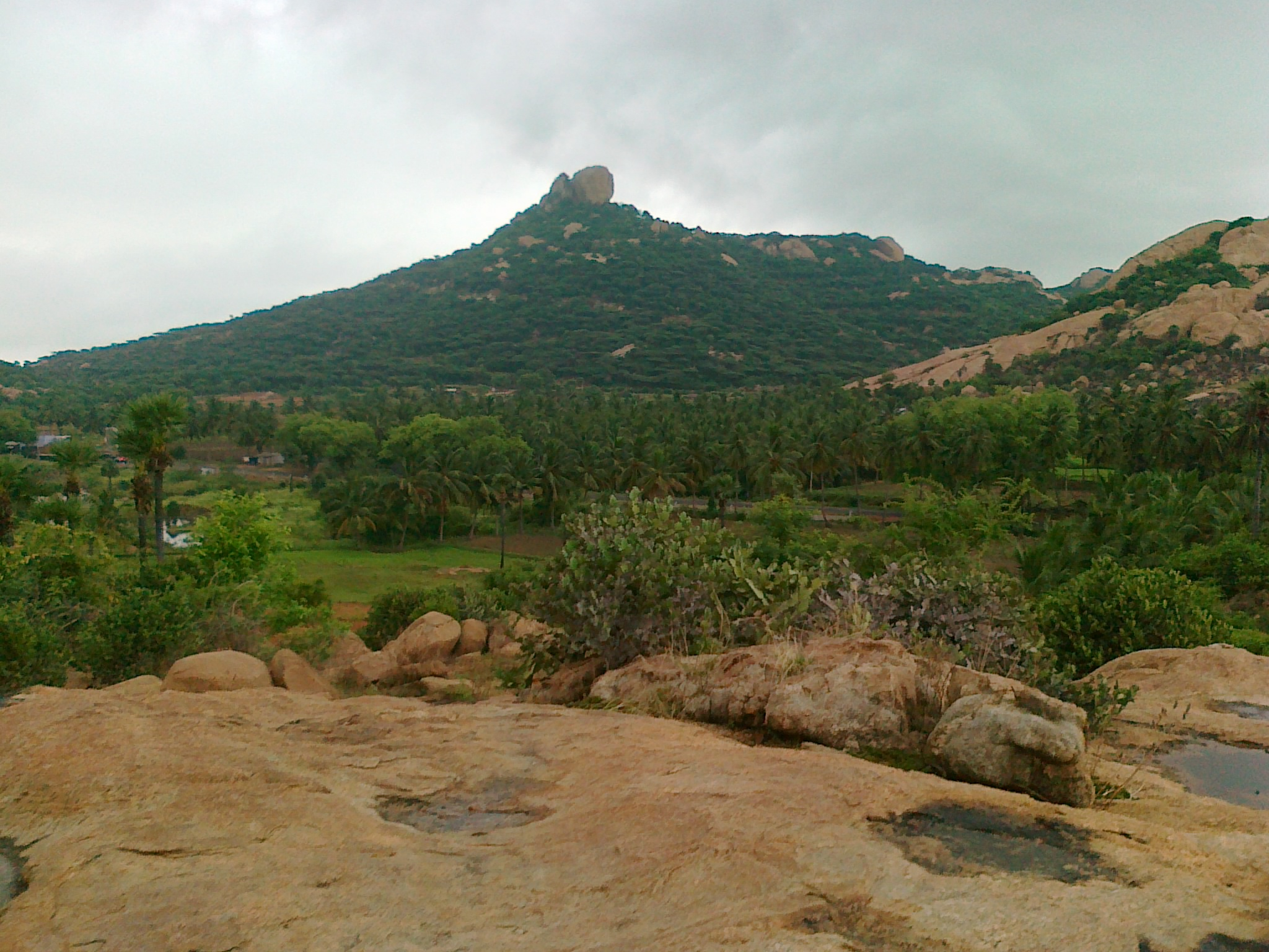 view of hill orukkamalai near SH86 in tamilnadu